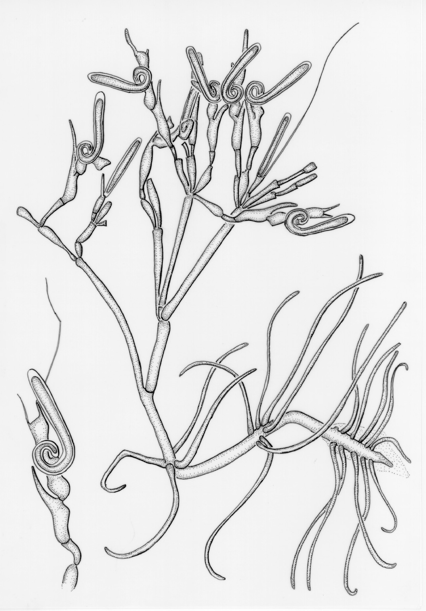 Orphella ctalaunica (Kickxellomycotina) with trichospores and zygospores)